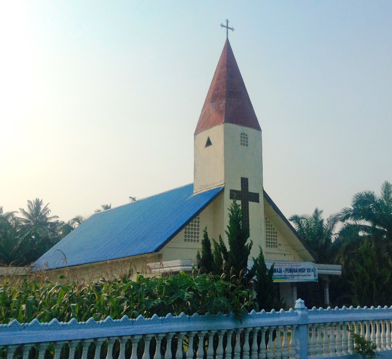 HKBP Pematang Kerasaan, Church in Pematang Kerasaan, Bandar, Simalungun